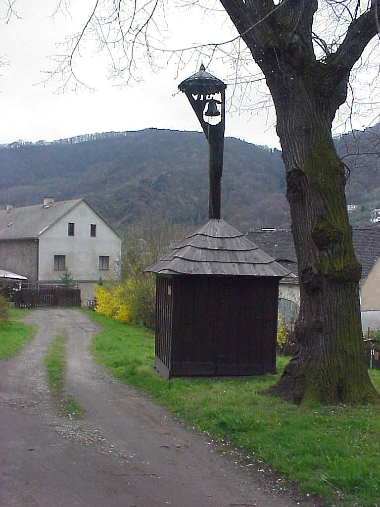 bell tower, Střekov, Czech Republic